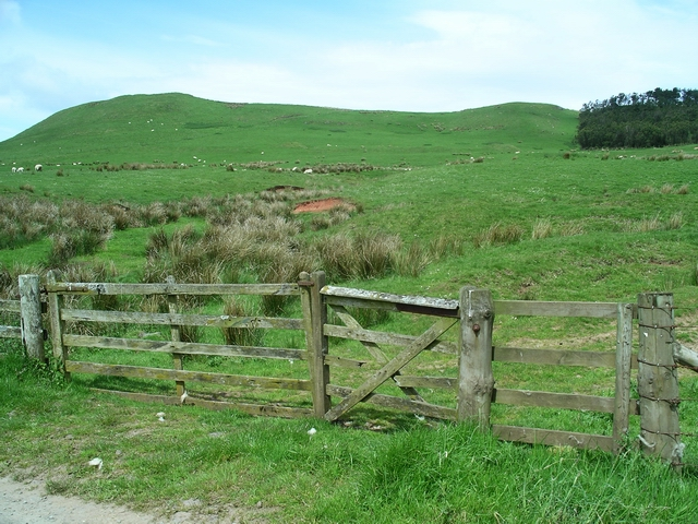 Burnswark Hill. A prominent Annandale landmark. On the flat-topped summit is an Iron Age fort dating from 600 BC, with the impressive ramparts of later 2nd century AD Roman forts immediately to the north and south. New research suggests that Burnswark may have been the location for the 10th century Battle of Brunanburh, previously thought to have been in England.